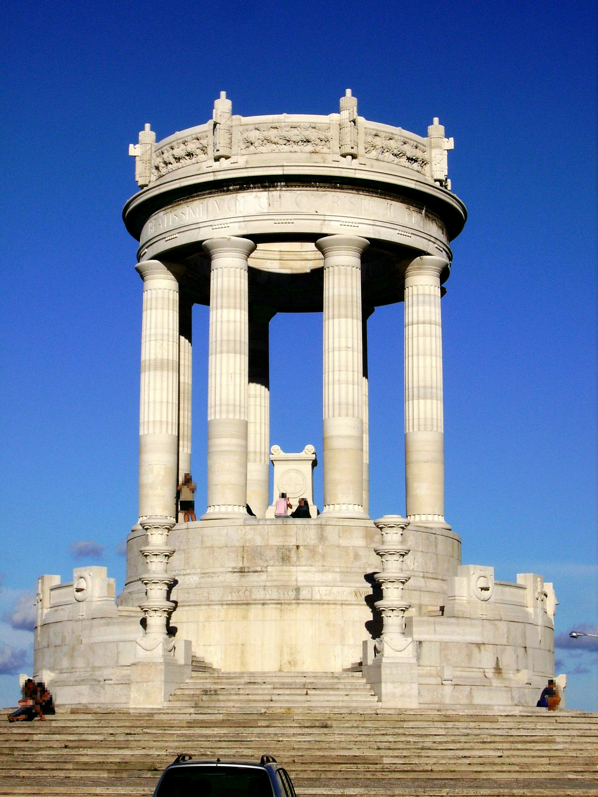 The war memorial for the soldier of Ancona died in all the battles, in Passetto district.